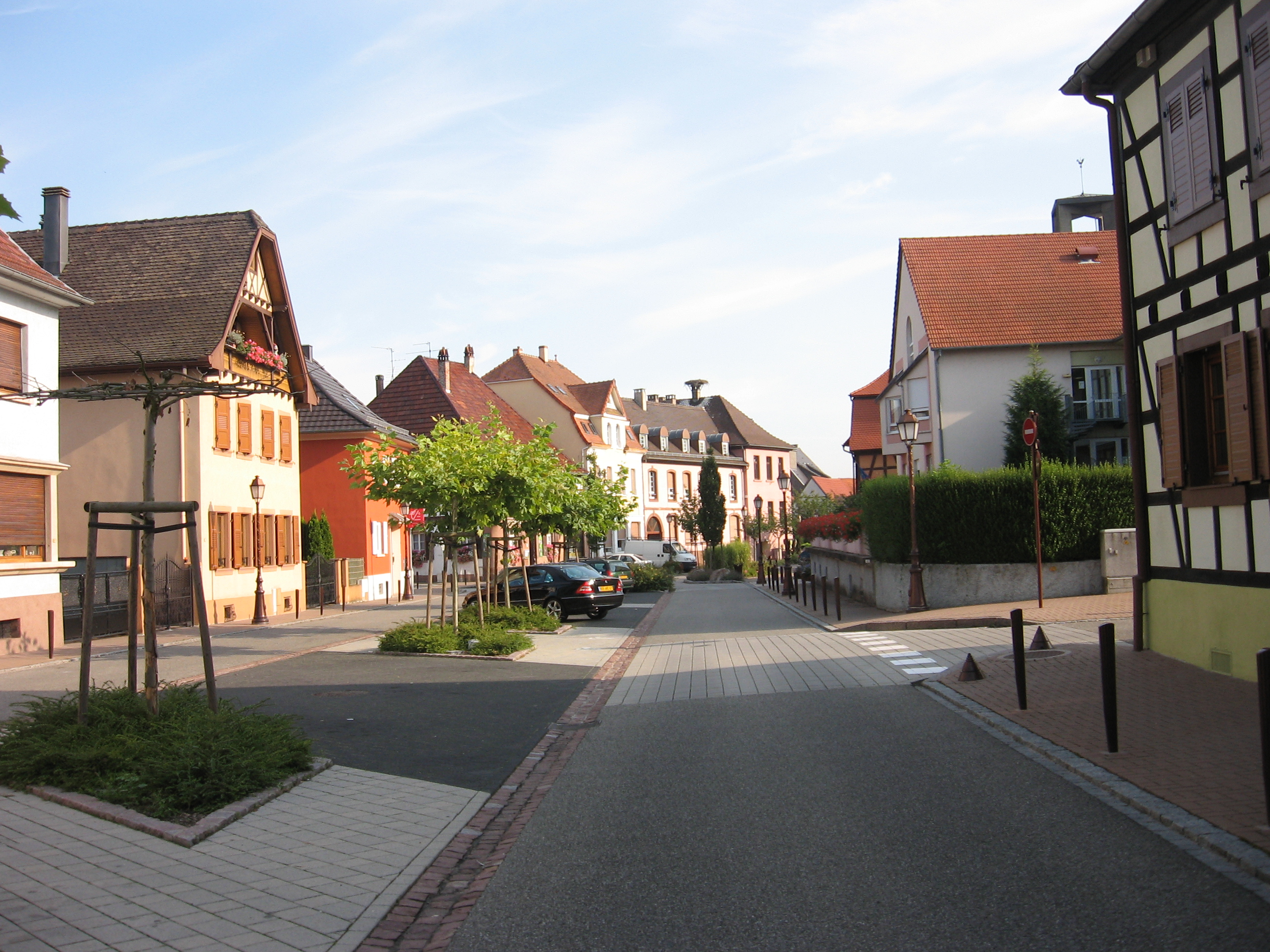 Seltz